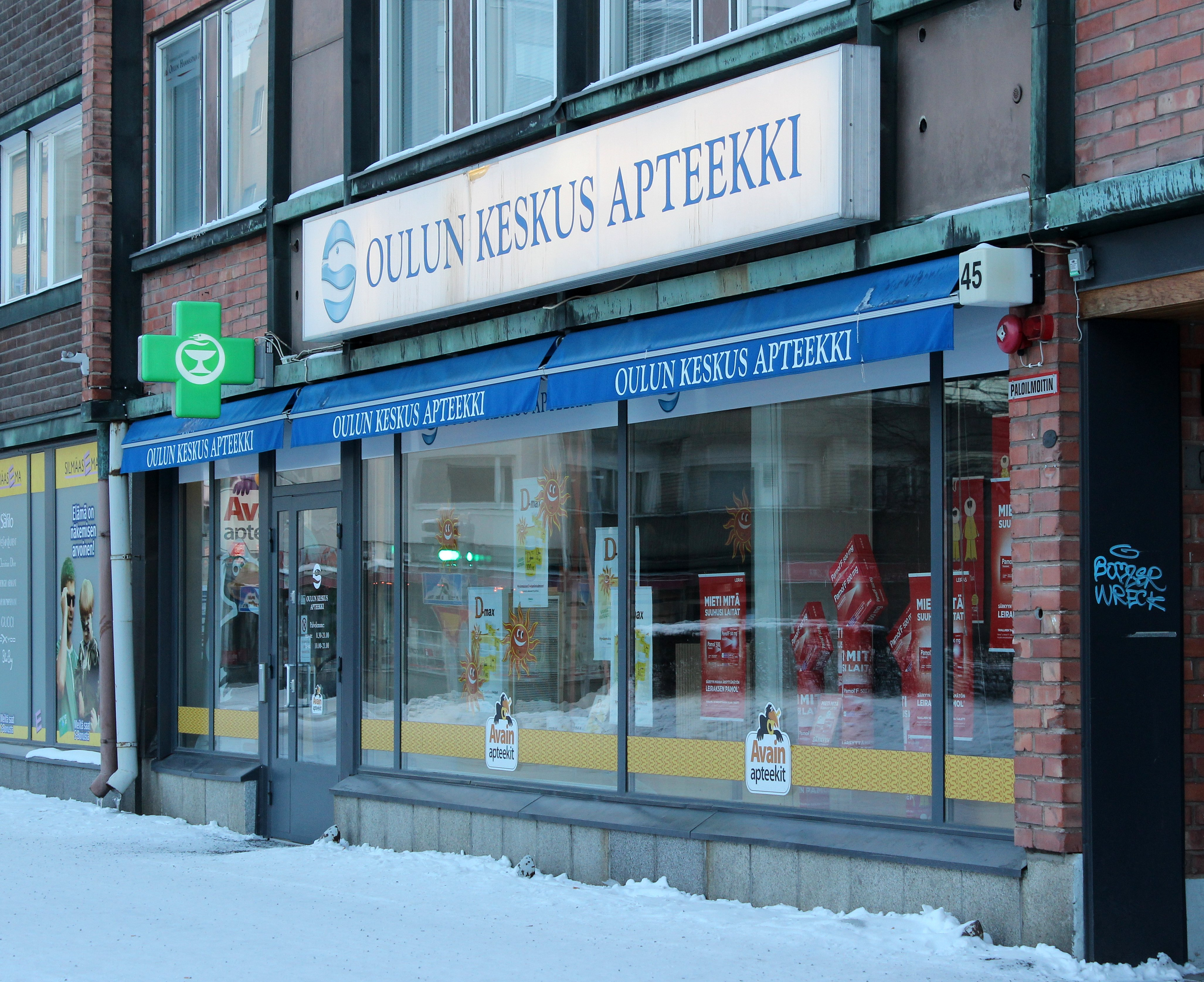 A pharmacy on Isokatu street in Vanhatulli, Oulu.